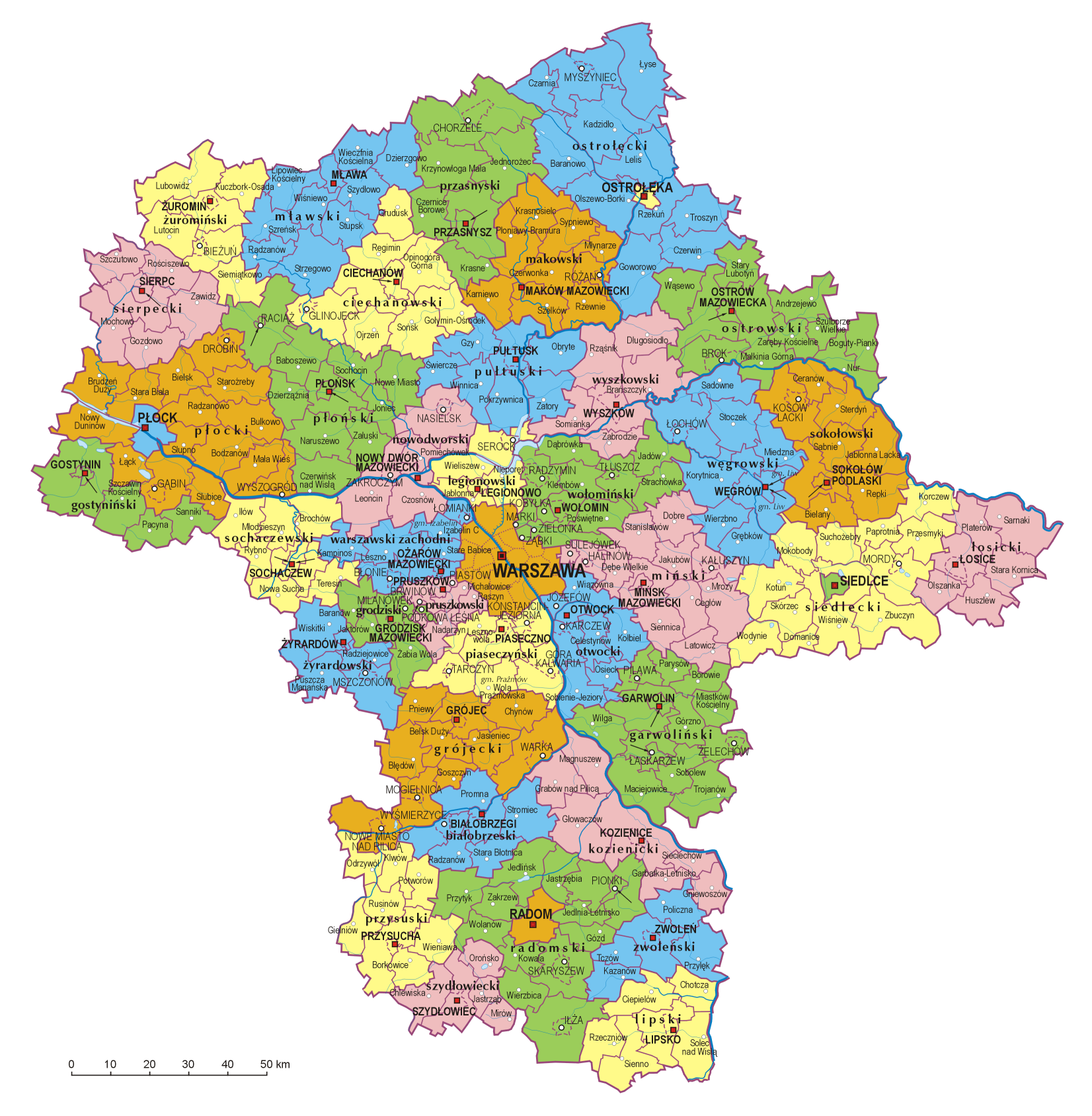 Administrative map of Mazowieckie Voivodship, as of January 1, 2007 LEGEND